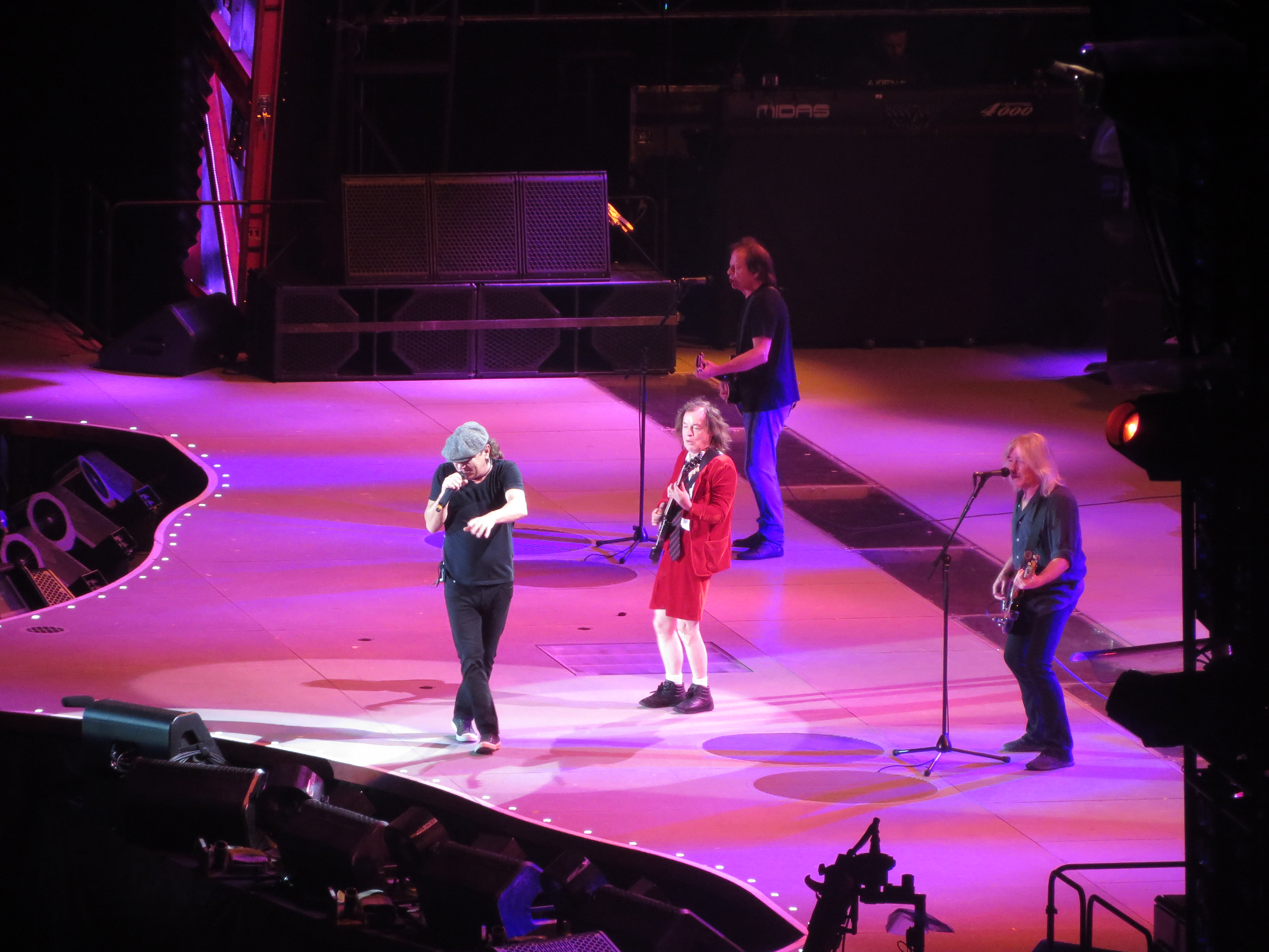 Concert by AC/DC at the Lluís Company's Olympic Stadium in Barcelona (05-29-2015)